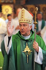 Archbishop Vincent Nichols during Invocation 2010, 2-4 July, Oscott College